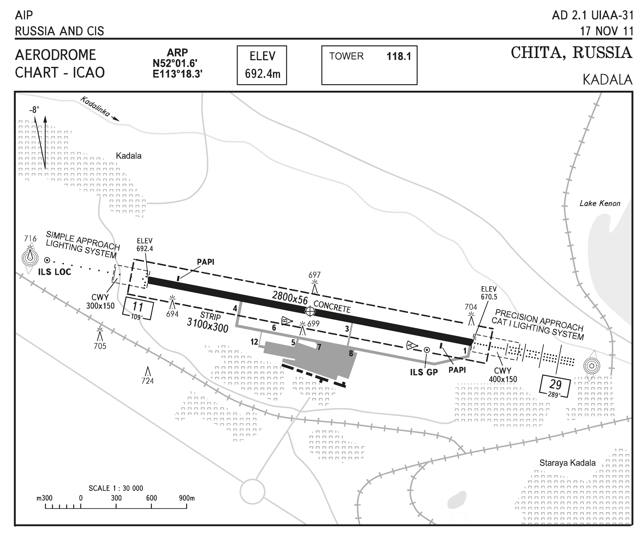 map of Kadala airport from Russian AIP of 2015